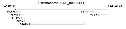 Gene: National Center for Biotechnology Information [1]